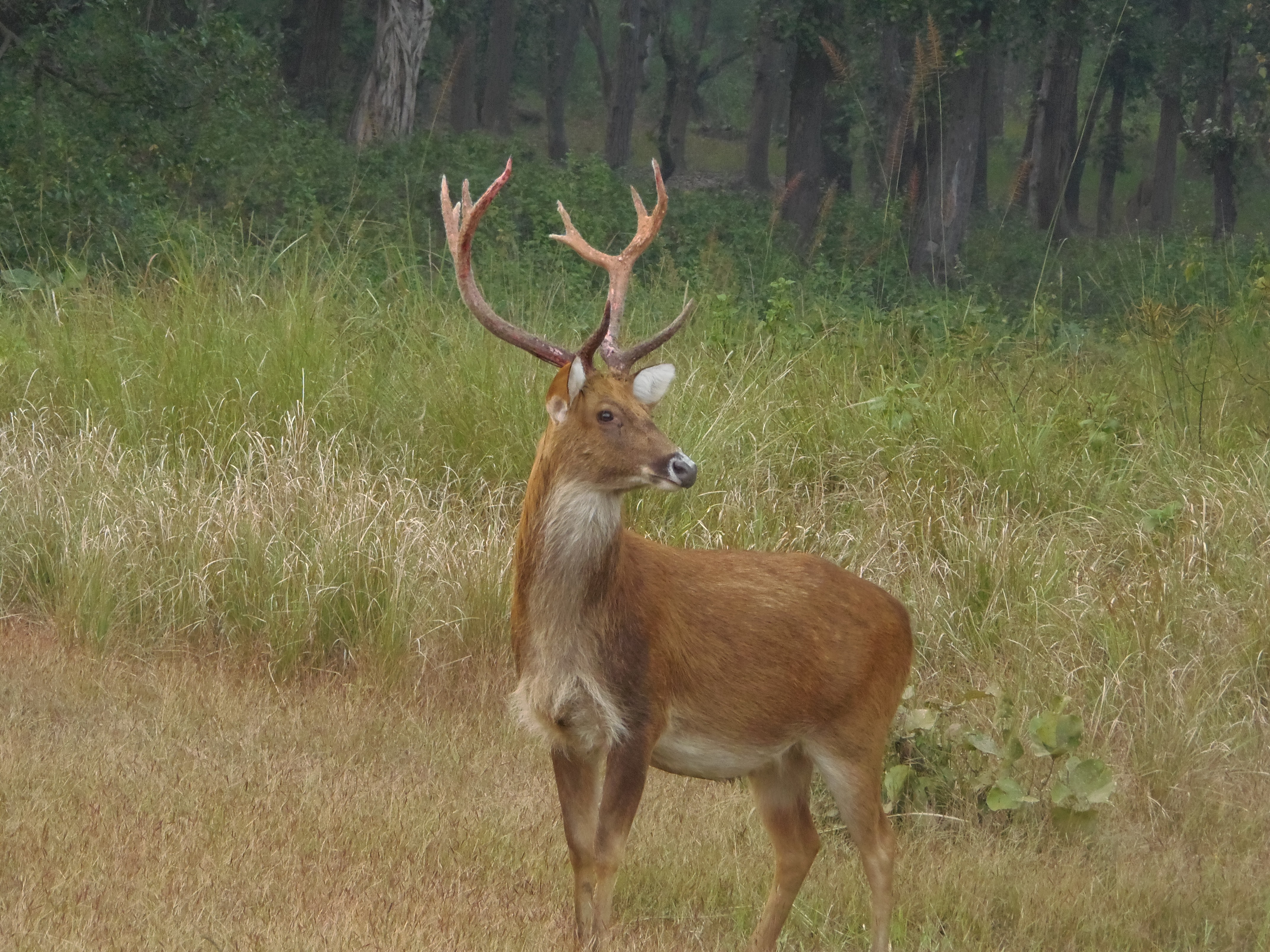 This is the elusive Barasingha male deer. This is a young adult with a impressive horn structure.